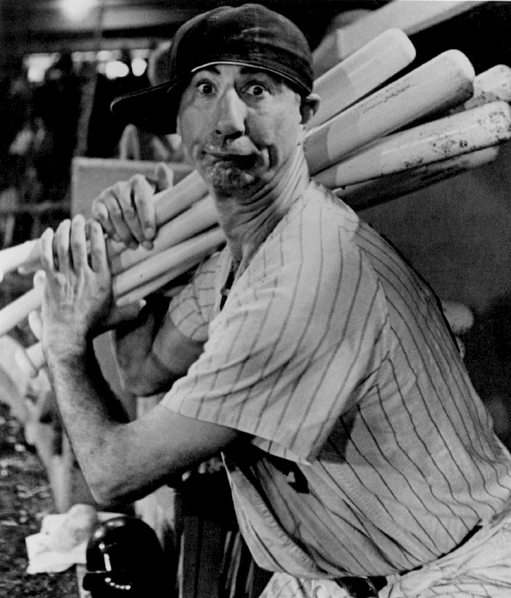 Compilation of photos of Max Patkin, a former baseball player who became a baseball clown after leaving the game.